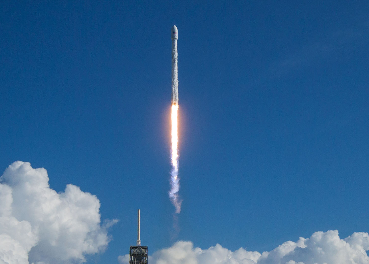 The X-37B Orbital Test Vehicle (OTV-5) successfully launched from NASA’s Kennedy Space Center in Florida on September 7th, 2017.